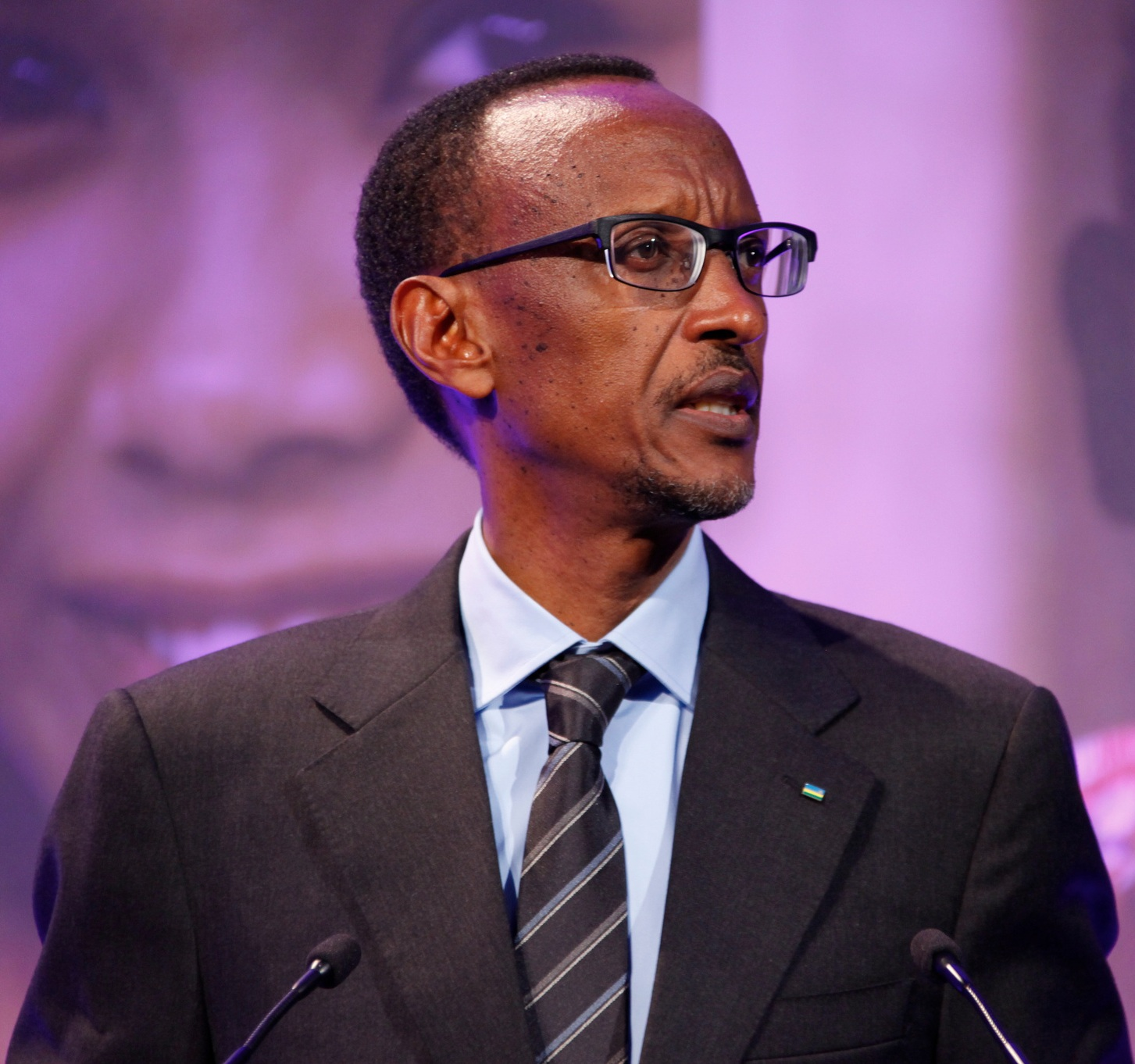 President Paul Kagame of Rwanda, speaking at the London Summit on Family Planning London, 11th July 2012. President Paul Kagame of Rwanda, speaking at the London Summit on Family Planning. Picture: Russell Watkins/Department for International Development Terms of use This image is posted under a Creative Commons - Attribution Licence, in accordance with the Open Government Licence. You are free to embed, download or otherwise re-use it, as long as you credit the source as Russell Watkins/Department for International Development